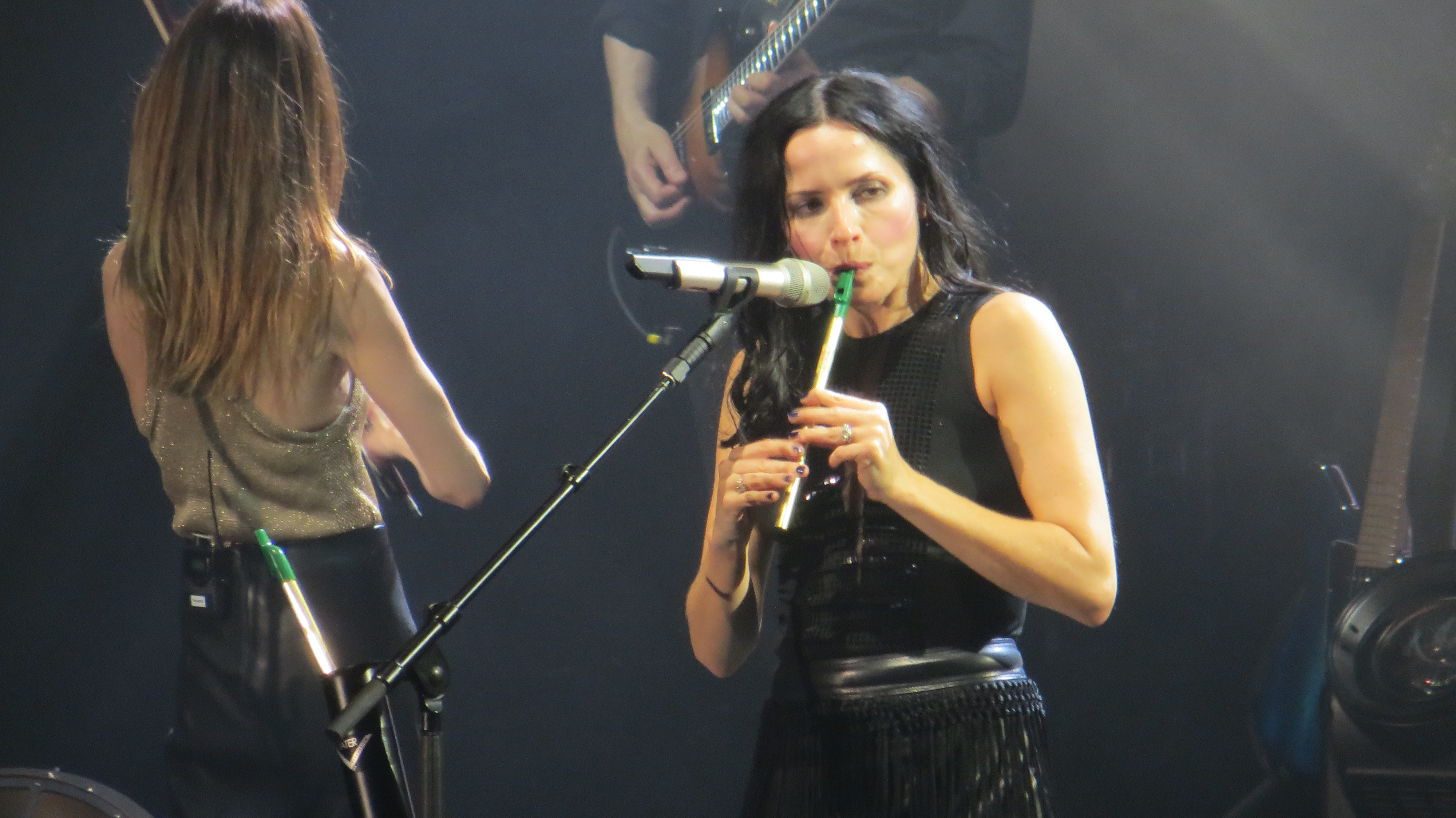 Andrea Corr in Vienna (Stadthalle, 2016)